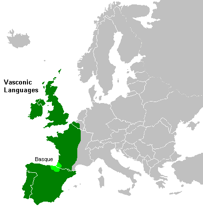 Proposed area of Vasconic substratum. Original description: based on Image:Proposed area of Vasconic languages.JPG, cleaned up JPG noise, saved as PNG.